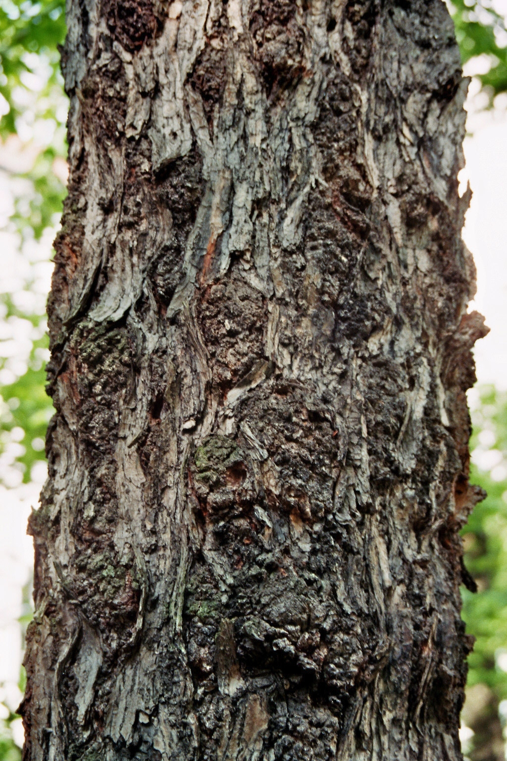 Quercus macranthera tree growing at the Salinenhof of the Ludwig-Maximilians-Universität München.